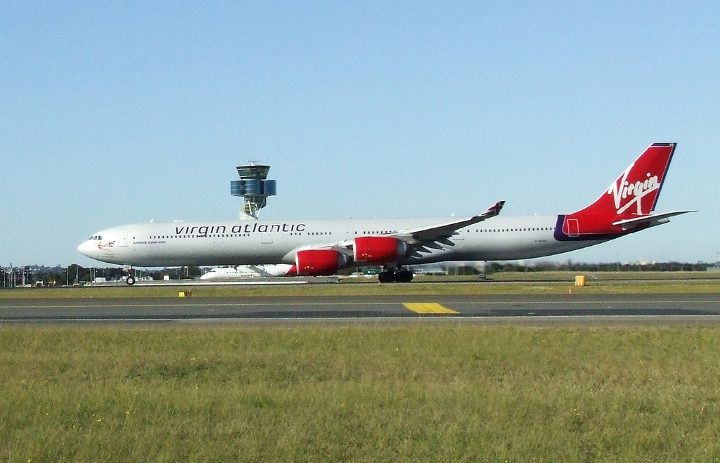 Virgin Atlantic A340-600 G-VGAS at full throttle on runway 34L. Taken with a Fujifilm FinePix S5600.